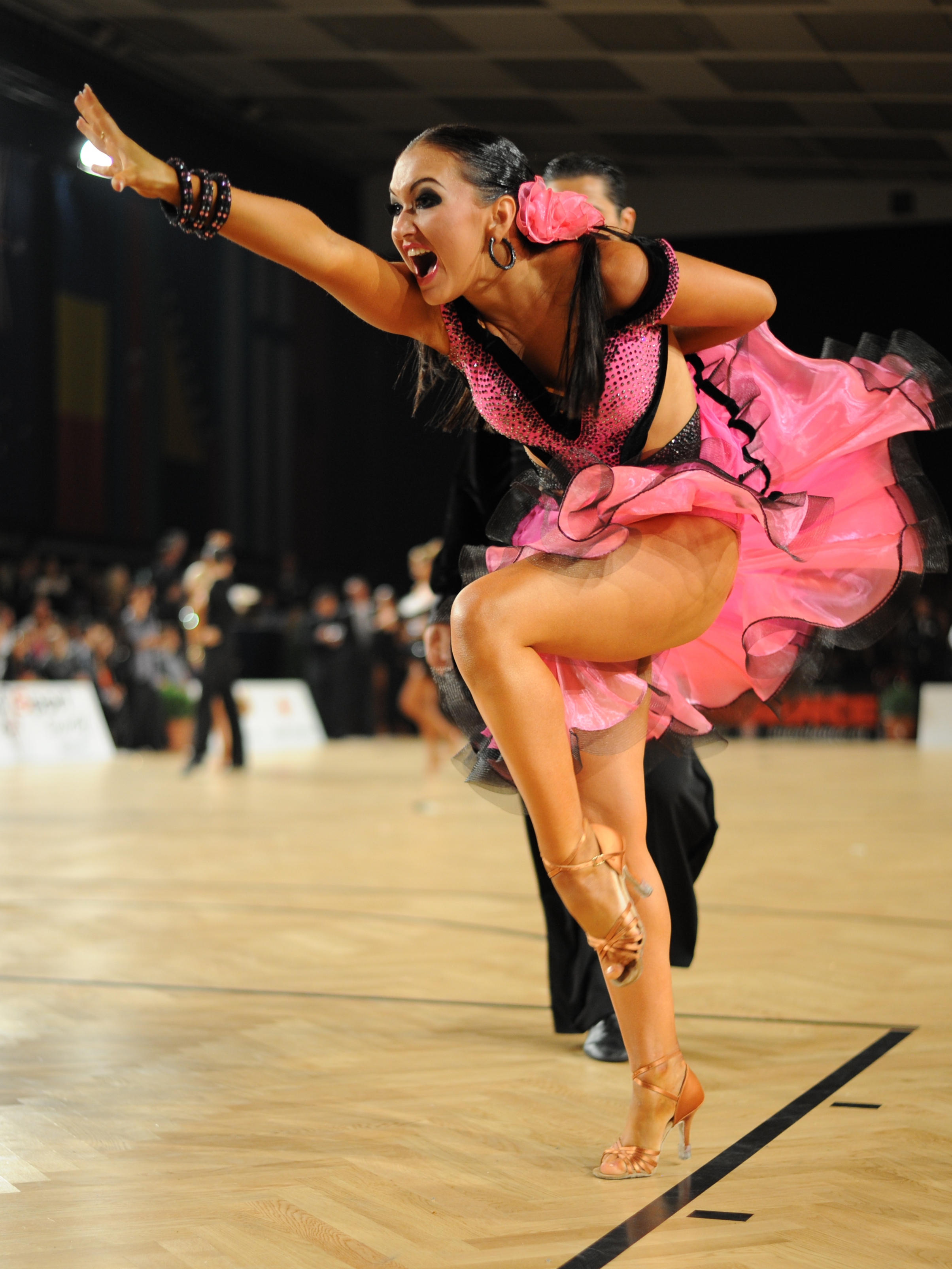 Austrian Open Championships Vienna, 2012 WDSF World Dancesport Championships Latin 16.-18. November 2012 Cha-Cha-Cha performed by Elena Salikhova, France